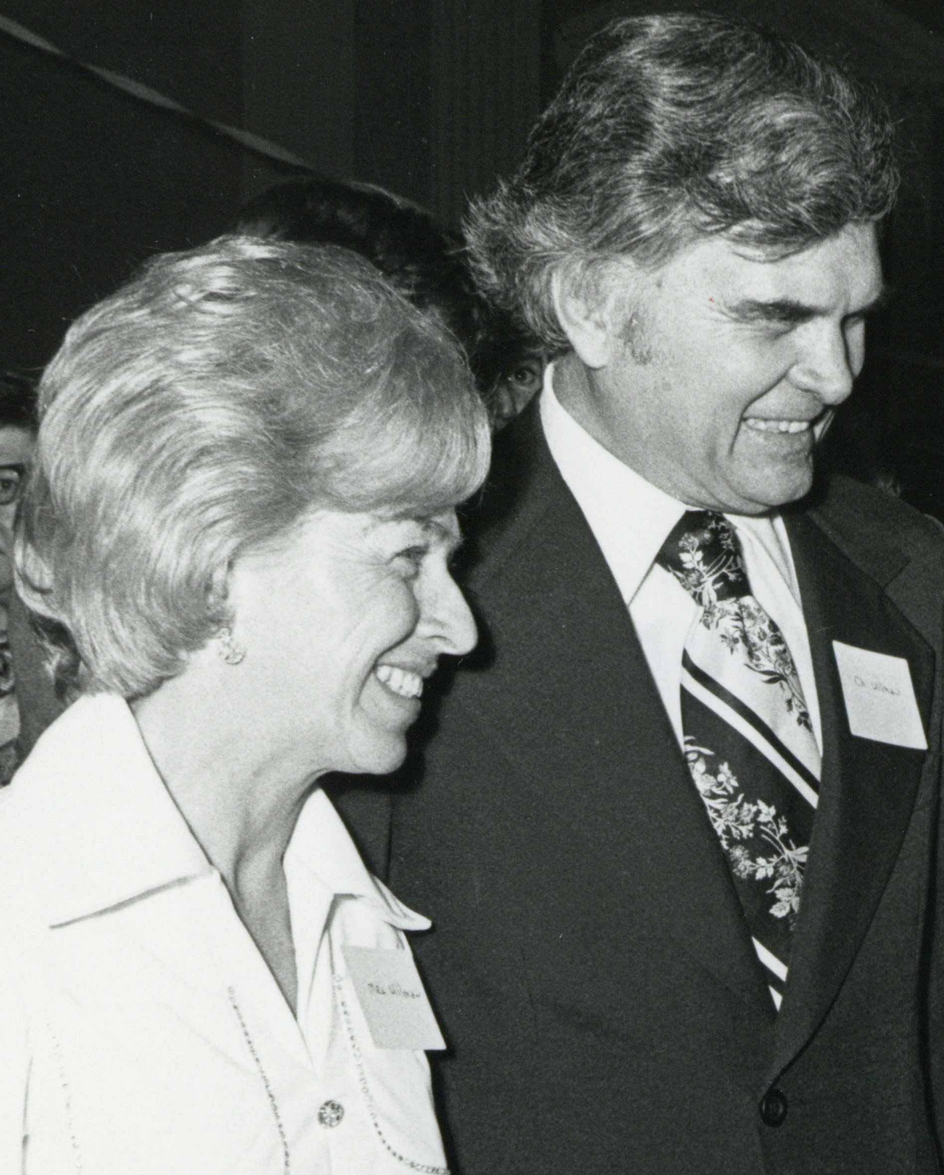 Black and white photograph of Al Ullman and Audrey Ullman at Carl Albert’s birthday party, 1976